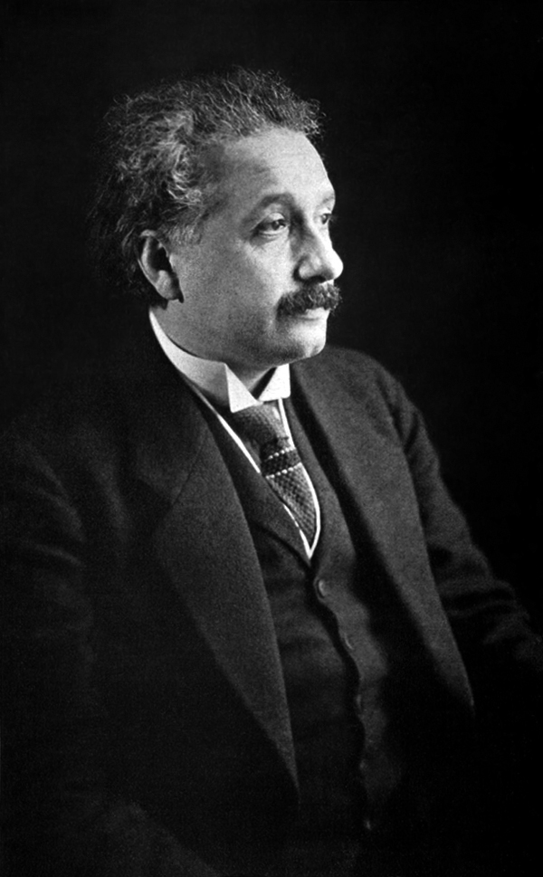 German-born theoretical physicist Albert Einstein